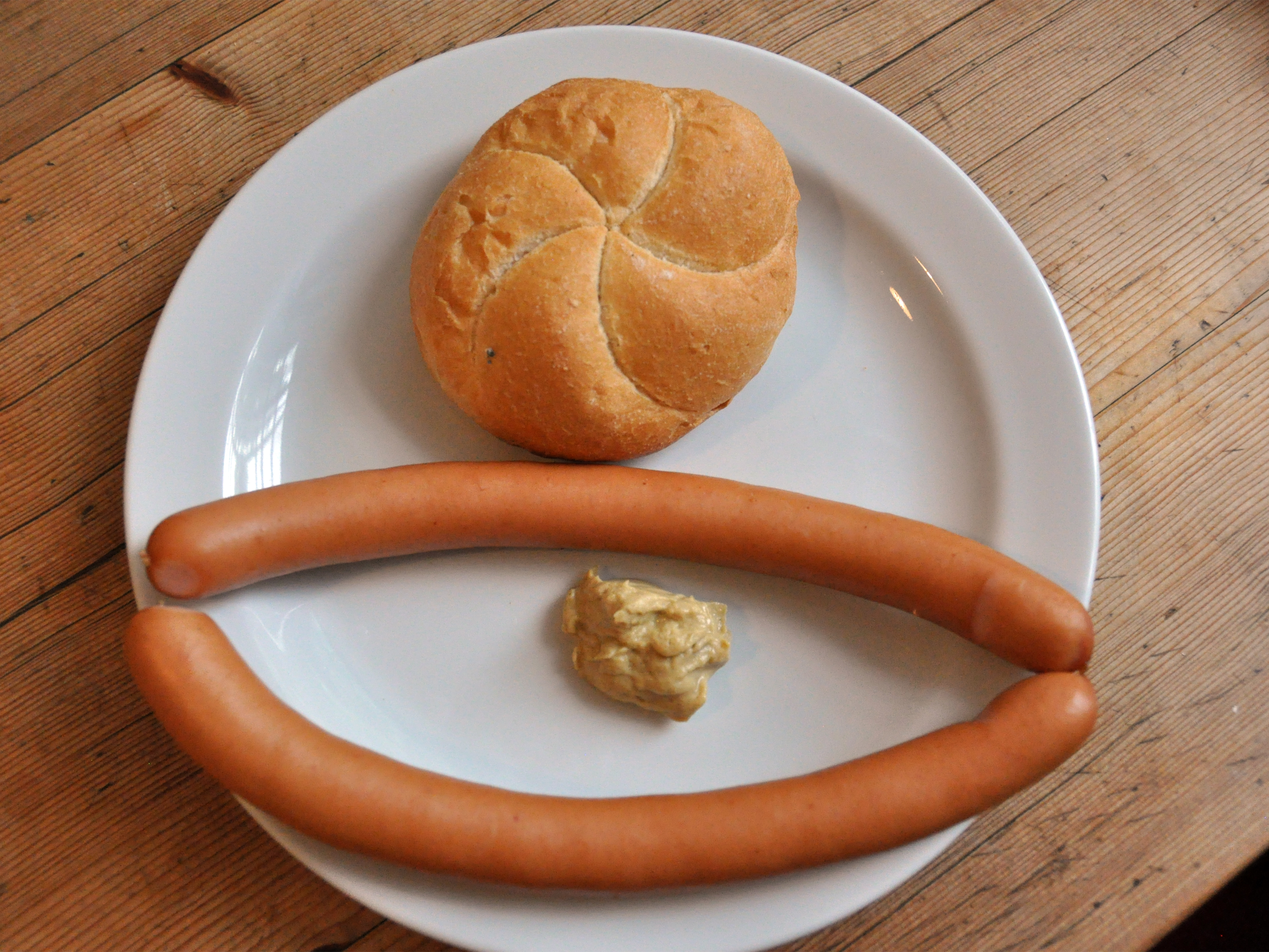 Sacher Wuerstchen